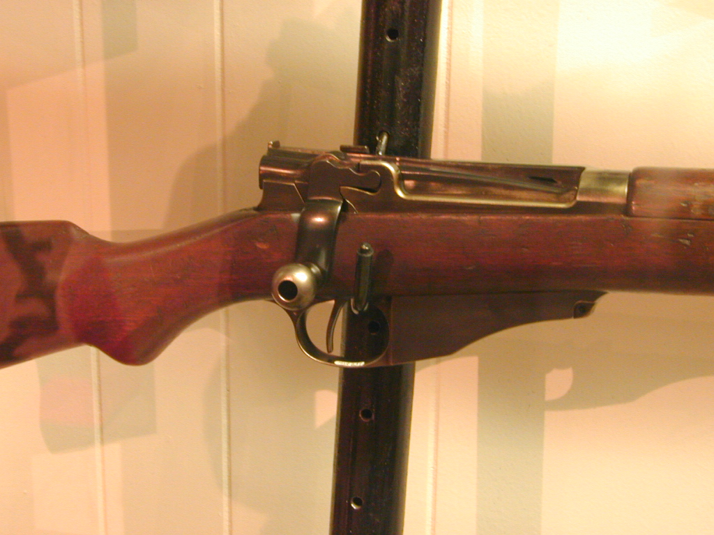 US Navy M1895 Straight Pull Rifle, 6mm Lee Navy (.236") made by Winchester Repeating Arms Co., New Haven, CT